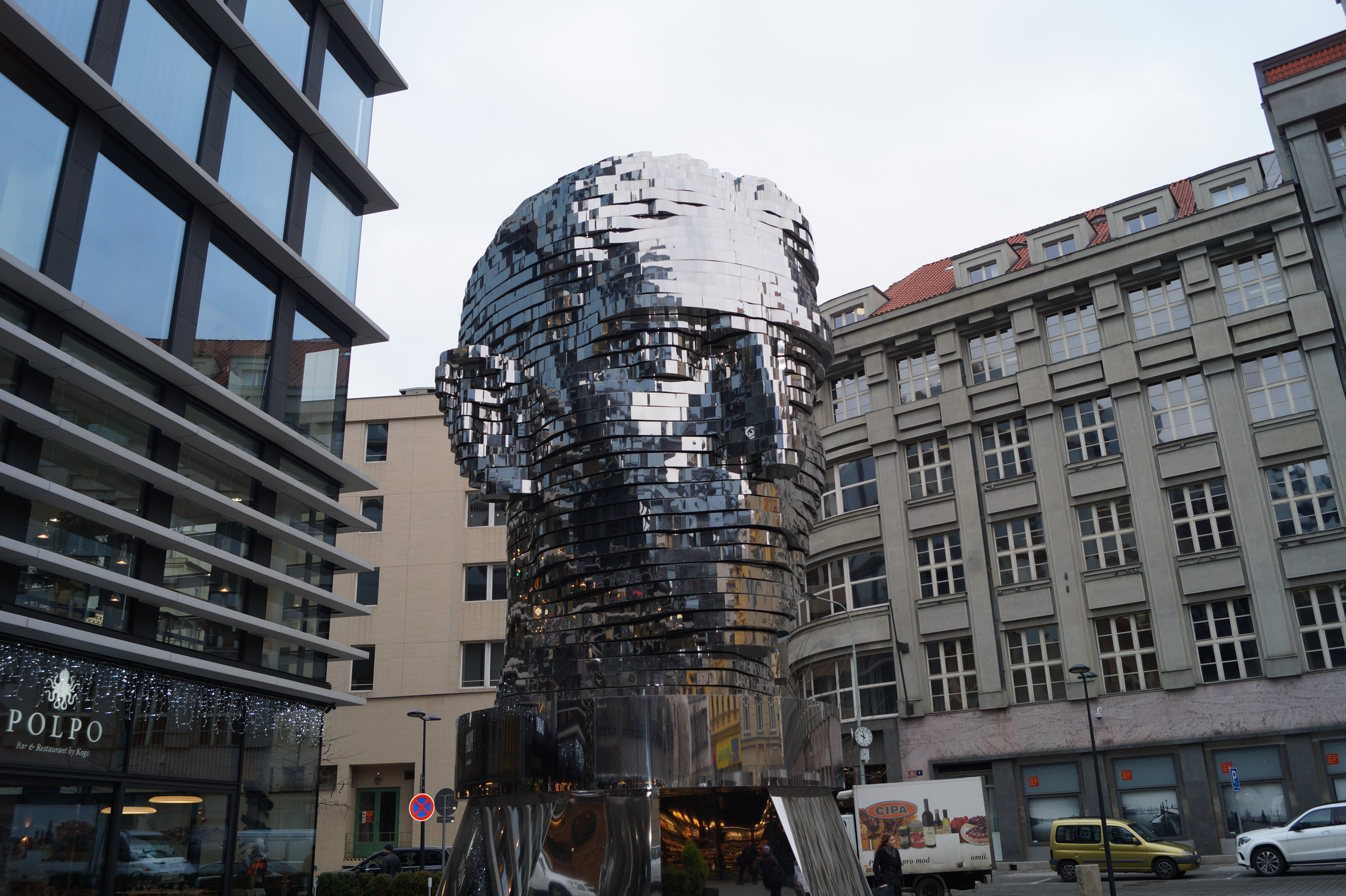 Franz Kafka monument in Prague - oeuvre de 2014 du sculpteur praguois David Černý, composée de 42 plaques mobiles reliées à un système de rotation, et située au-dessus de la station de métro Národní třída à Prague (République tchèque).